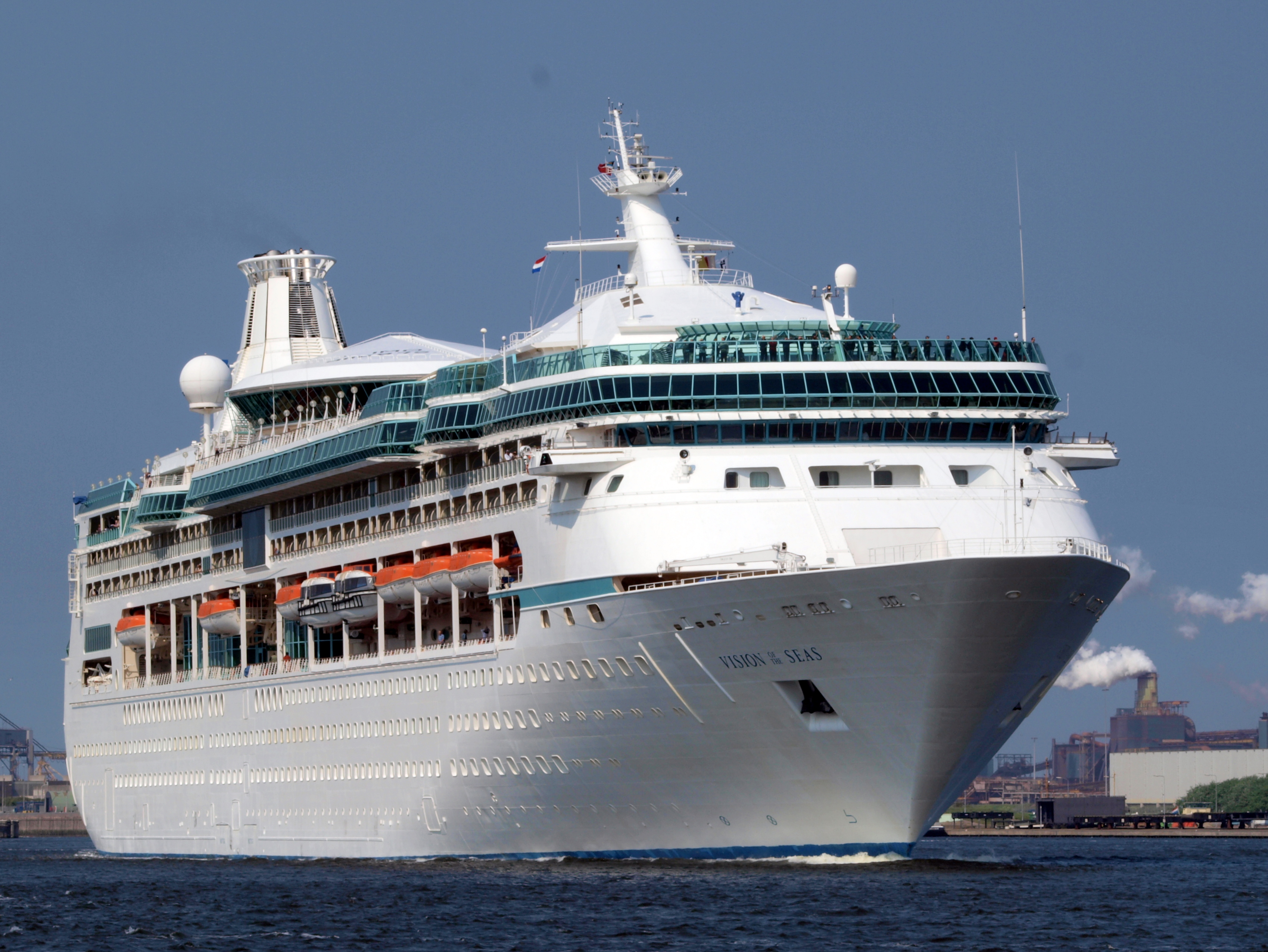 Photographed at the Port of Amsterdam, IJmuiden, The Netherlands.